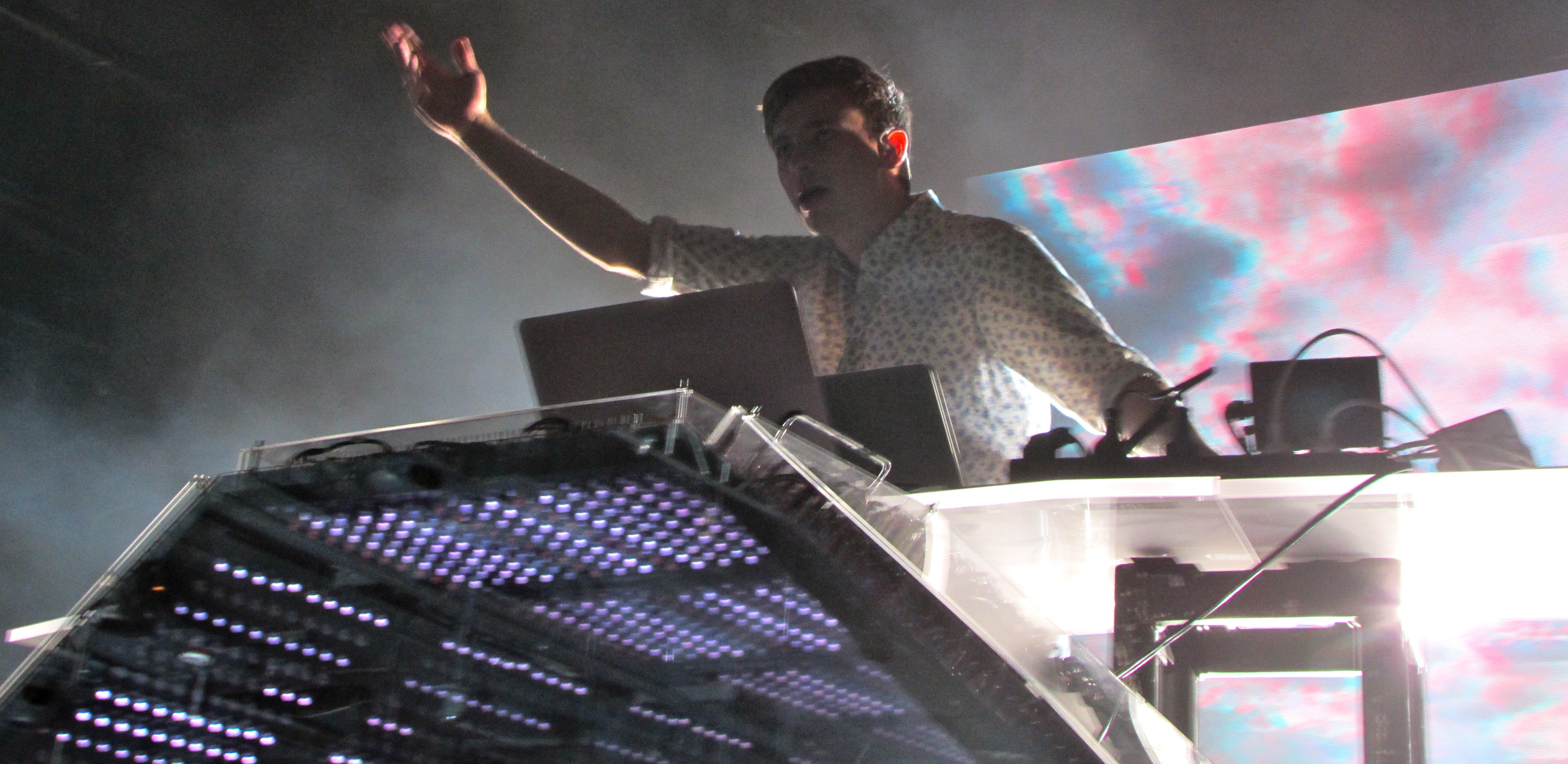 Flume at Brooklyn Bowl Las Vegas